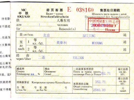 Ticket of China Railway train number K3 from Beijing to Moscow